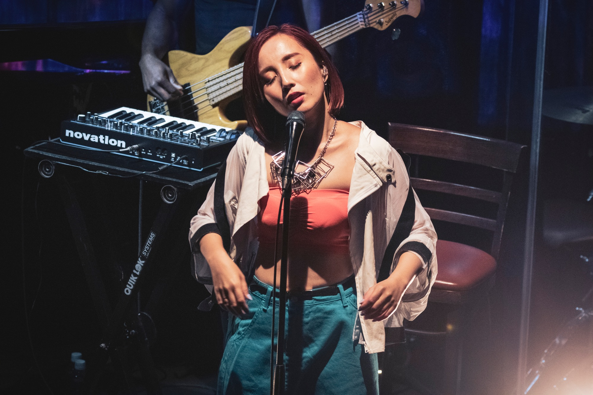 Nao Yoshioka performed live at Tokyo Blue Note on August 19, 2019, one stop on her "Nao Yoshioka “Undeniable” Release Tour in Japan 2019", part of her fourth album release tour.